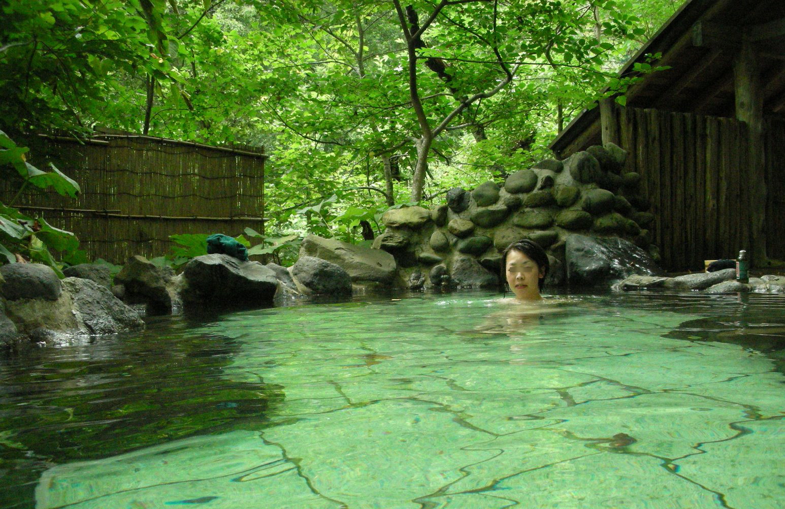 Nurukawa Onsen.